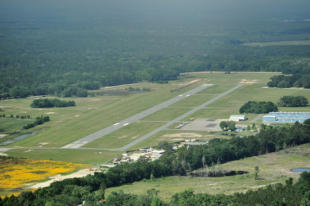 Suwanee County Airport (24J) in North Florida near the town of Live Oak.